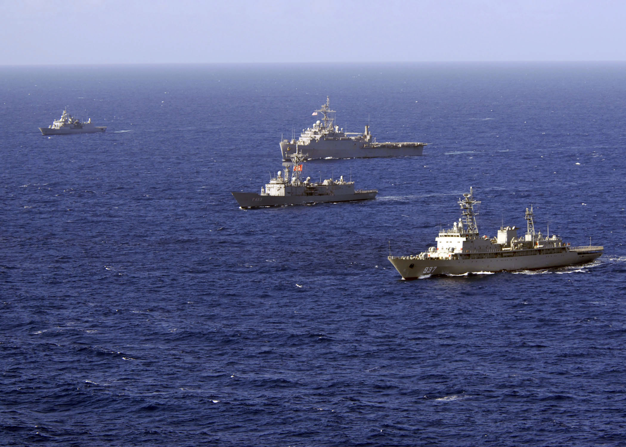 The Algerian training ship La Soummam (937), the Turkish frigate TCG Gelibolu (F 493), the amphibious transport dock ship USS Nashville (LPD 13) and the Greek frigate HS Spetsai (F 453) transit the Mediterranean Sea during Phoenix Express (PE 08). PE-08 is the third annual exercise in a long-term effort to improve regional cooperation and maritime security. The principal aim is to increase interoperability by developing individual and collective maritime proficiencies of participating nations as well as promoting friendship, mutual understanding and cooperation.